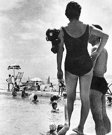 Dakko-Chan